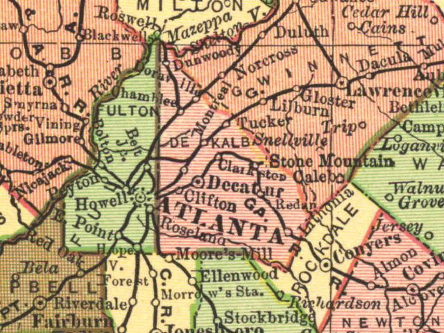 Close up of DeKalb County, Georgia, Rand McNally Atlas of the World, 1895.